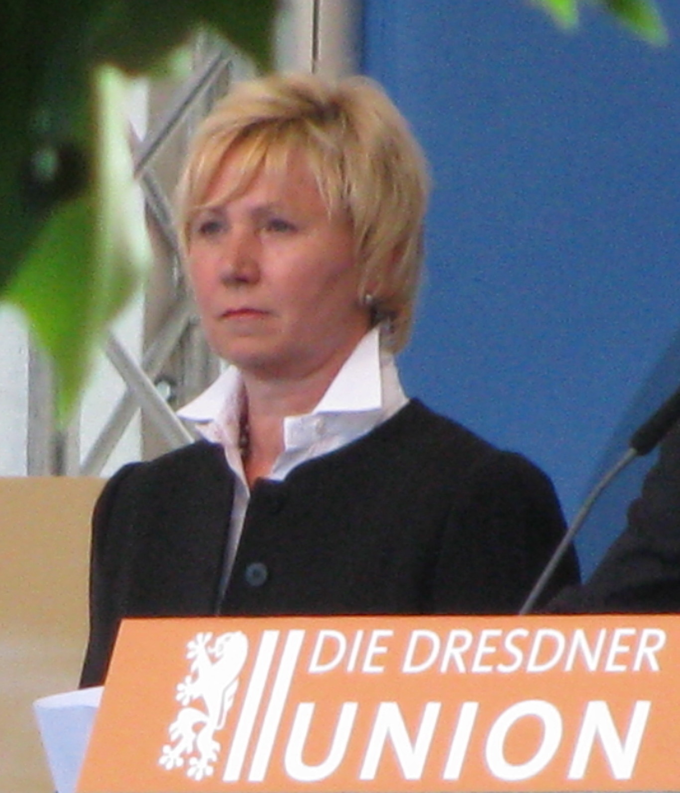 Helma Orosz (CDU) on June 18, 2008 in Dresden